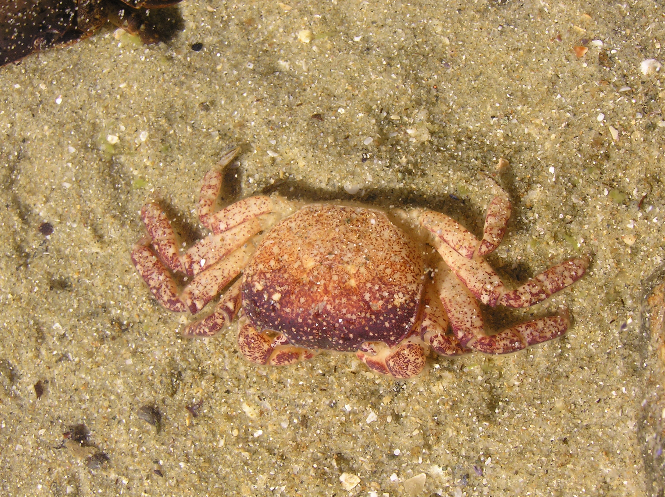 Found in a tidal rock pool, Scorching Bay, Wellington, New Zealand.